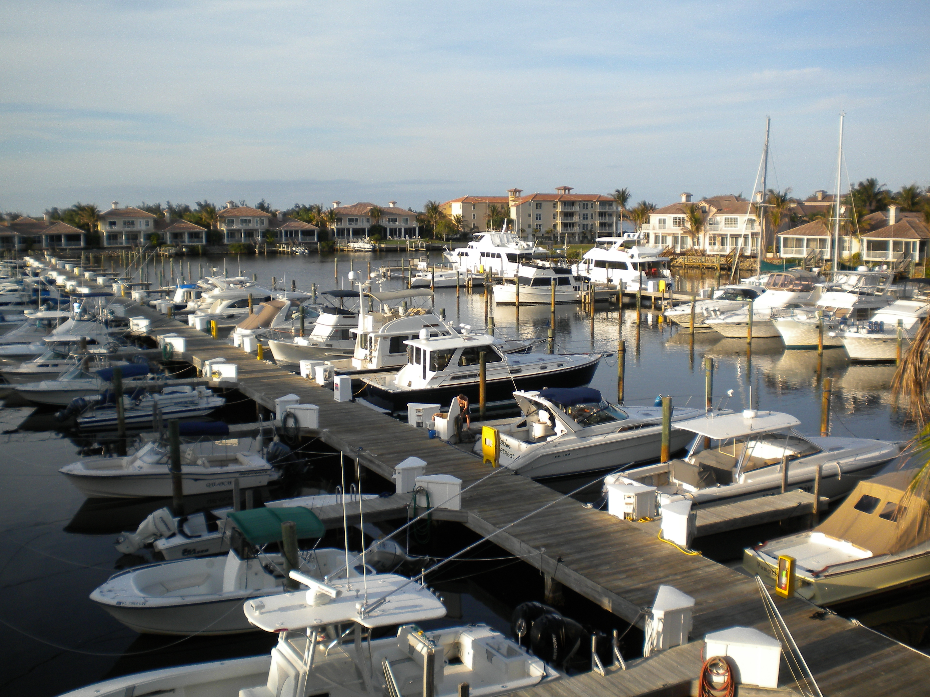 Loggerhead Marina at Marina Village on Marina Village Circle, Grand Harbor, Vero Beach, Florida.